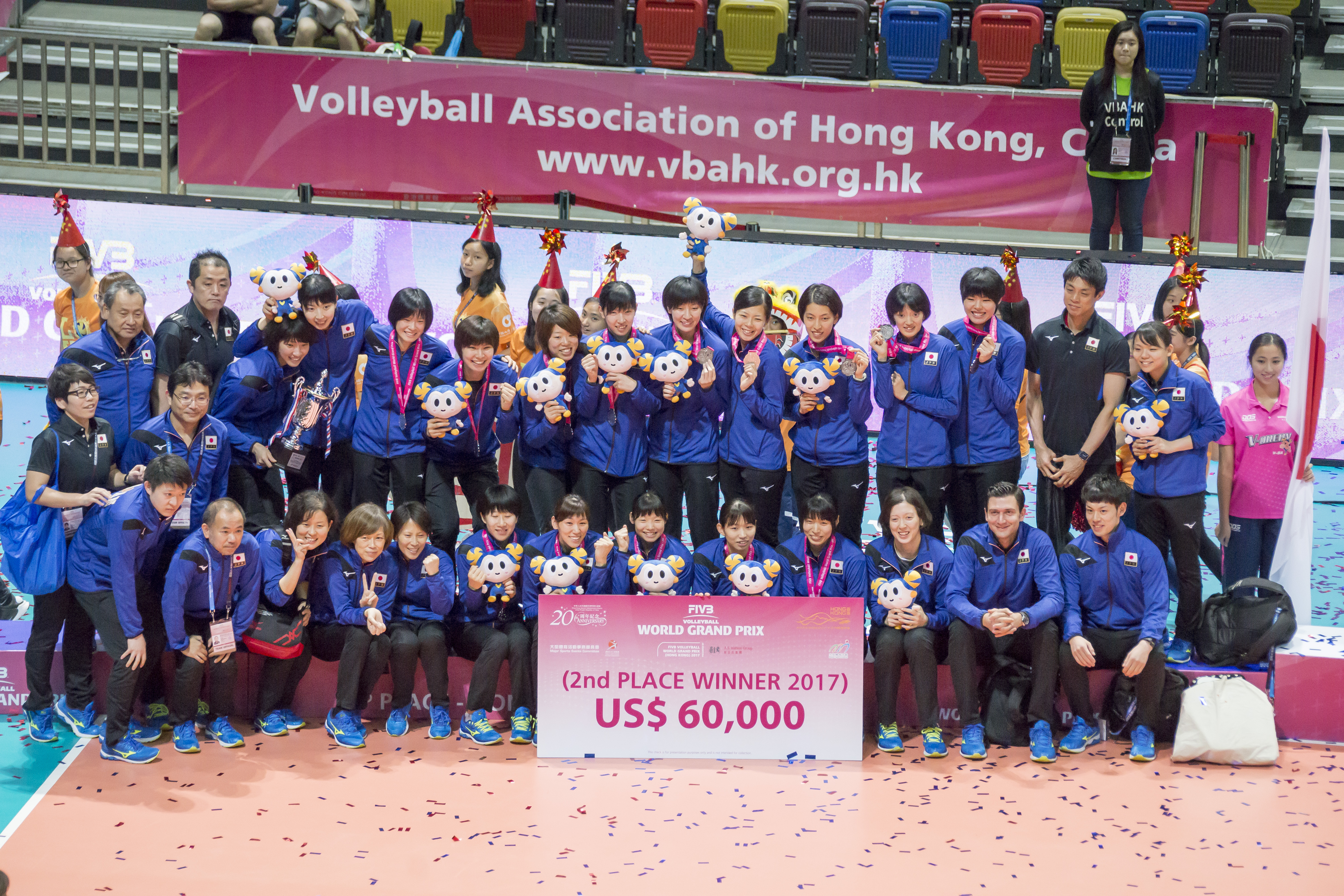 JAPAN TEAM 2. SARINA KOGA 3. NANA IWASAKA 4. RISA SHINNABE 9. HARUYO SHIMAMURA 10. KOYOMI TOMINAGA 11. YURIE NABEYA 12. MIYA SATO 13. MAI OKUMURA 14. AYAKA MATSUMOTO 16. RISA ISHII 18. MAMI UCHISETO 20. MAKO KOBATA 21. KOTOE INOUE 23. RIKA NOMOTO 24. MIZUKI TANAKA